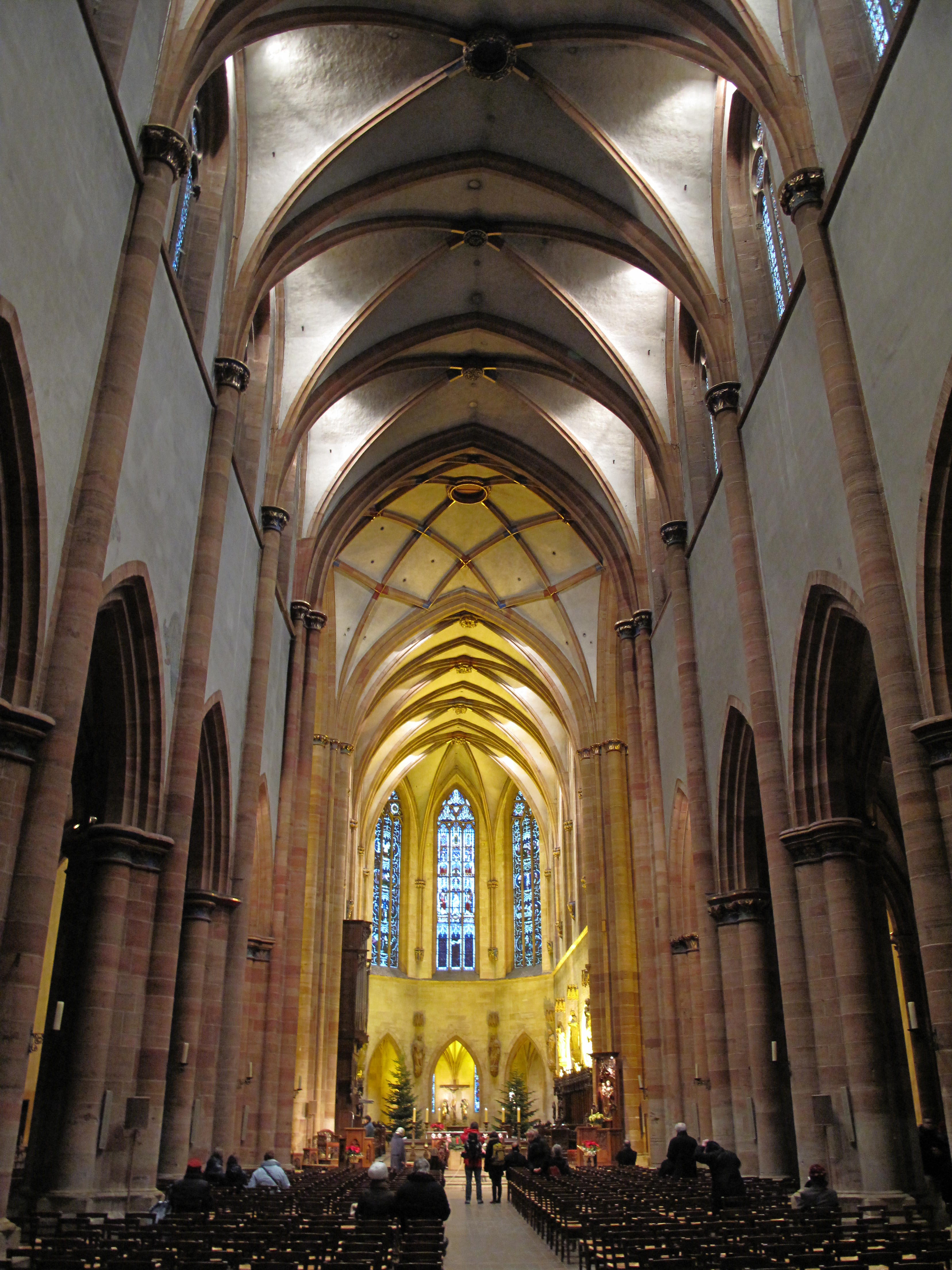 Nave of the Saint-Martin cathedral in Colmar, France.